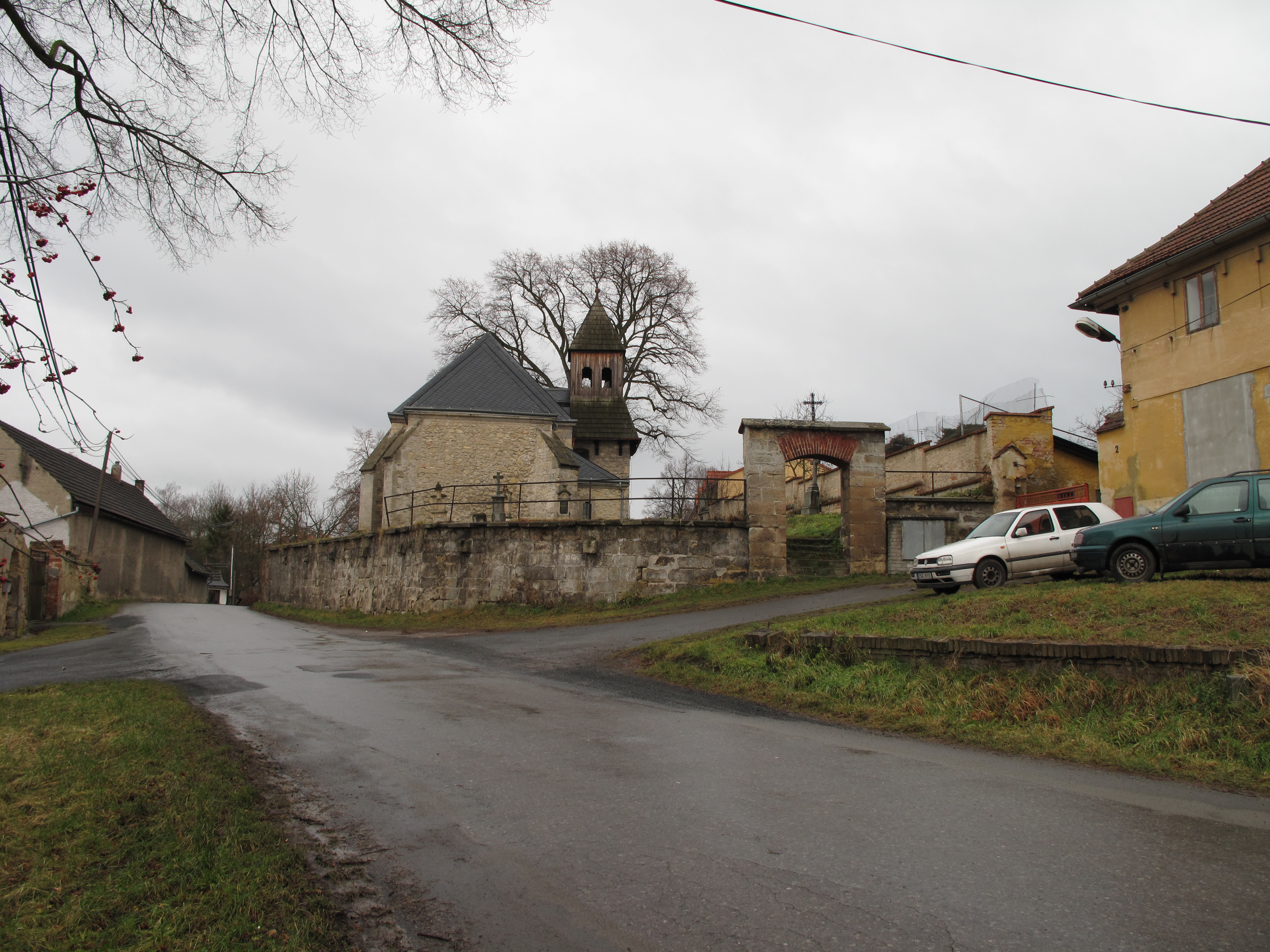 Church of the Beheading of St. John the Baptist in Krpy village, Mladá Boleslav District, Czech Republic.